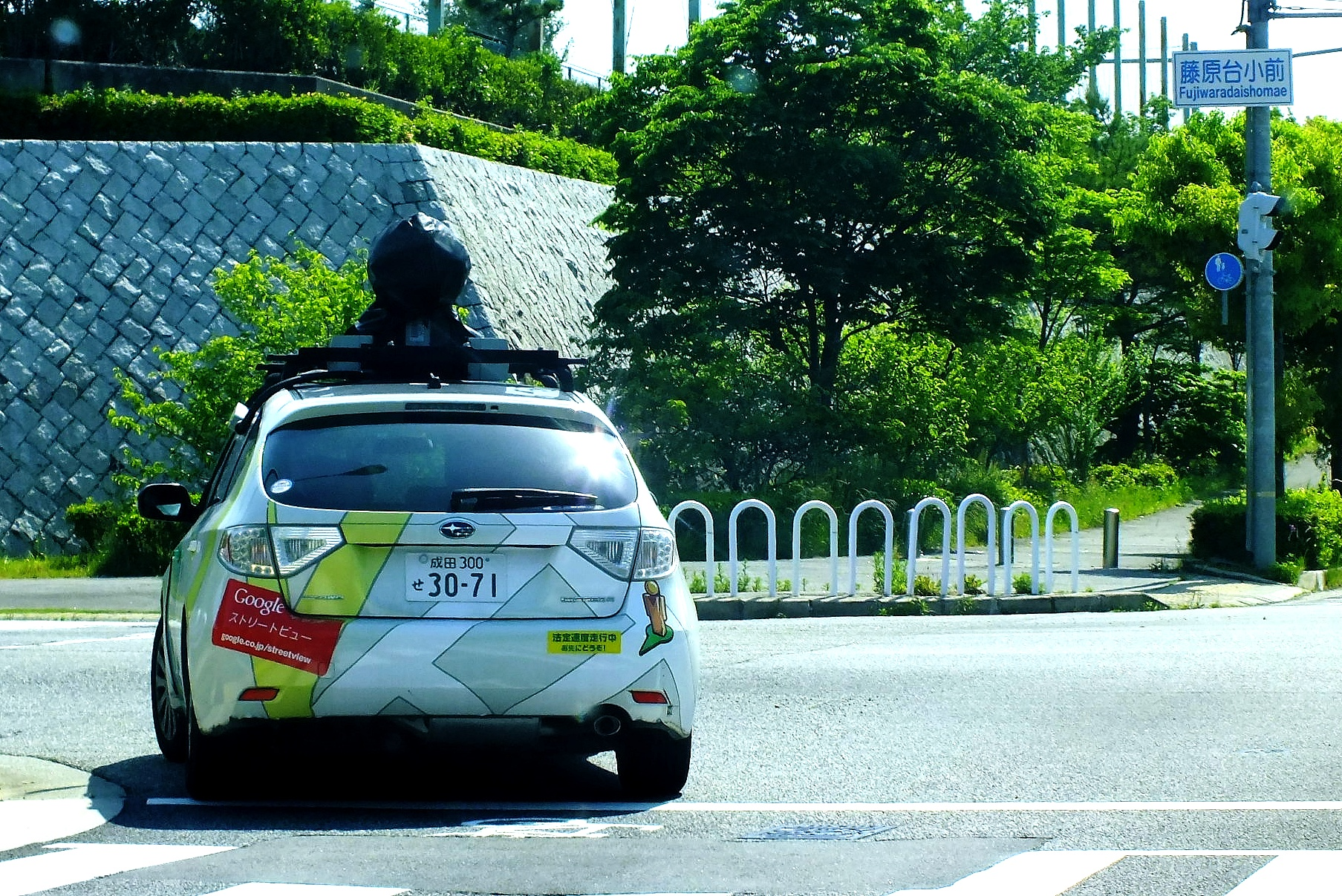 Google Street View camera cars in Japan near Fujiwaradai Elementary School in Kobe City